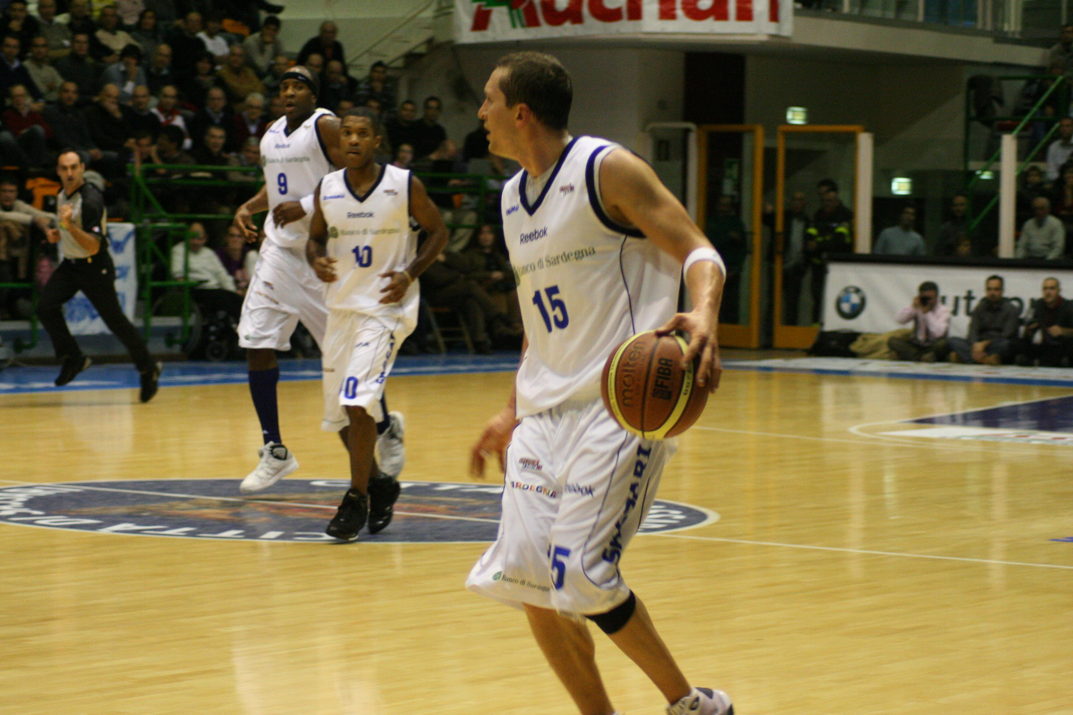 Dinamo Sassari